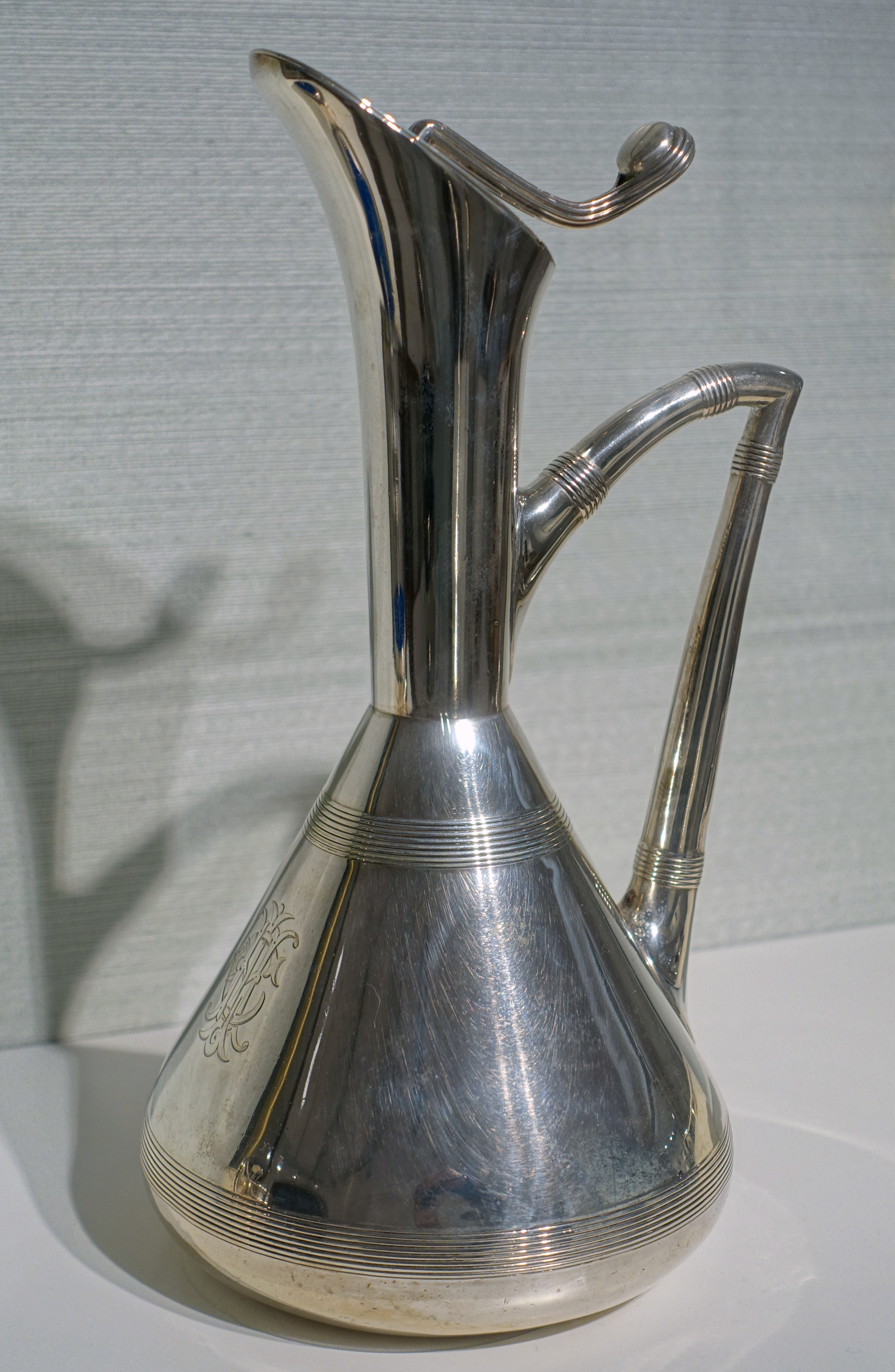 Exhibit in the Hessisches Landesmuseum Darmstadt - Darmstadt, Germany. As a utilitarian object, this exhibit is NOT subject to copyright laws. Instead it is subject to Industrial Design Rights; see Industrial Design Right for more information. If this object was ever covered by a design patent, that patent has long since expired, and thus this image is in the public domain.